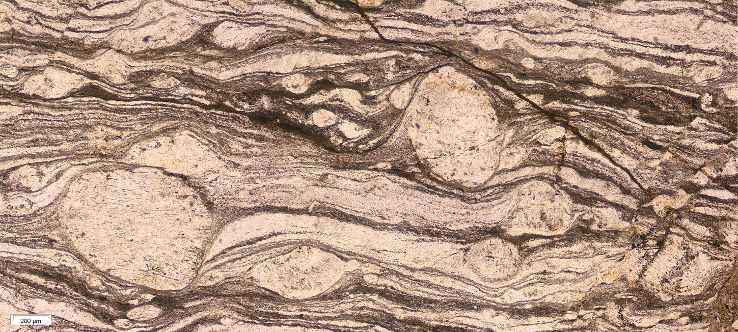 Mylonite with rotated clasts in thin section, normal polarized light. Strona-Cenery zone, Southern Alps (Italy).